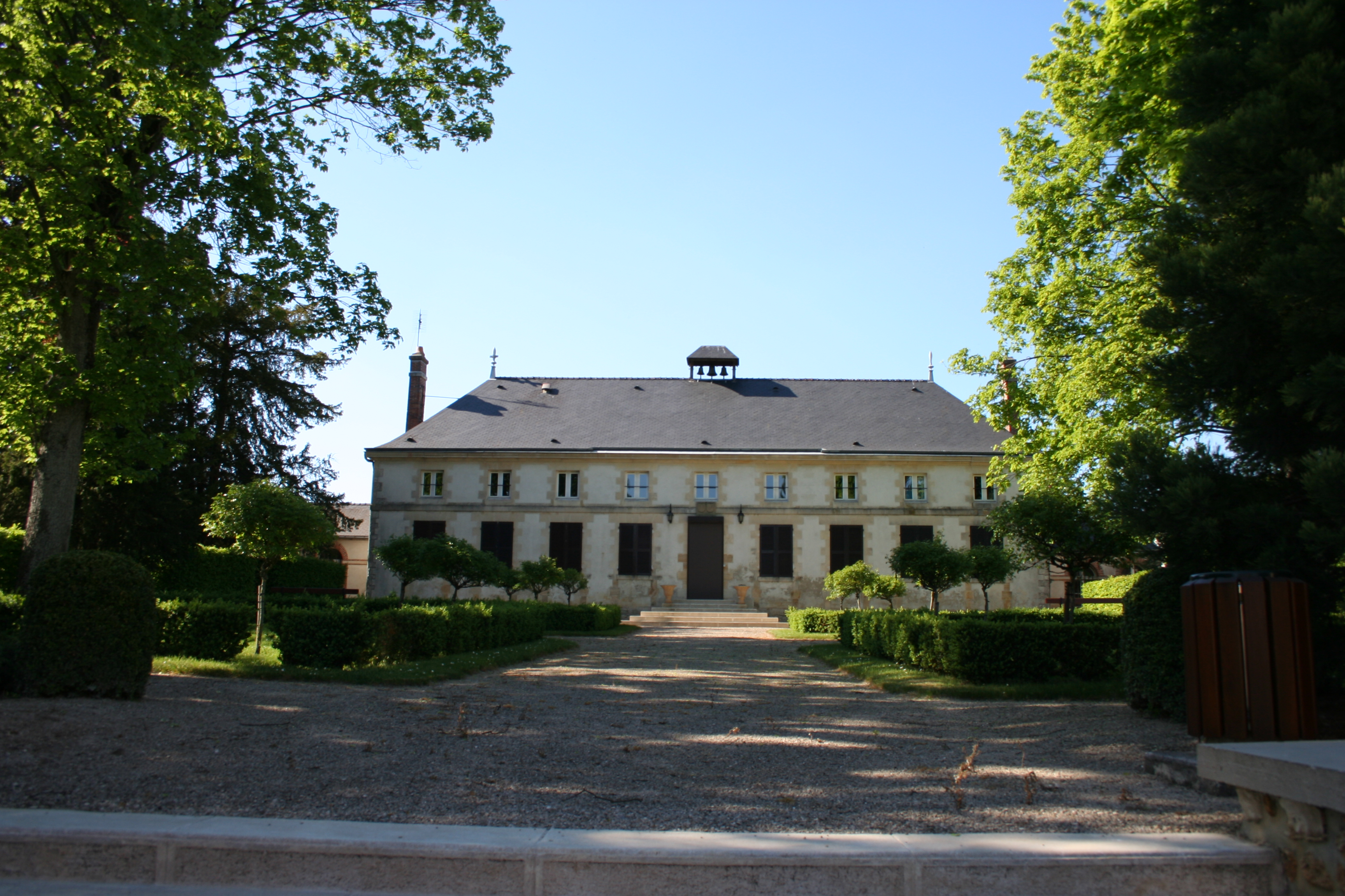 France - Avize - Marne - City Hall